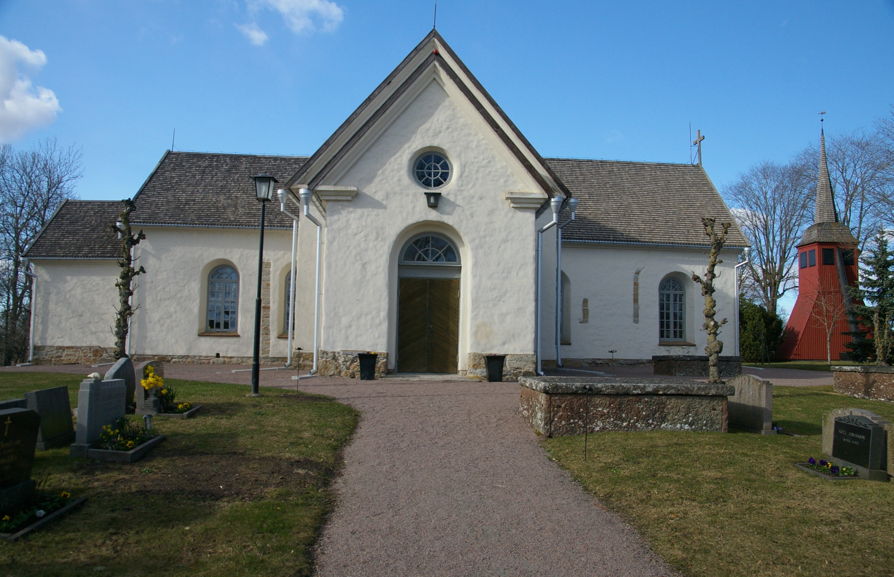 Åsle kyrka (Swedish:Church of Åsle) in Västergötland, Sweden